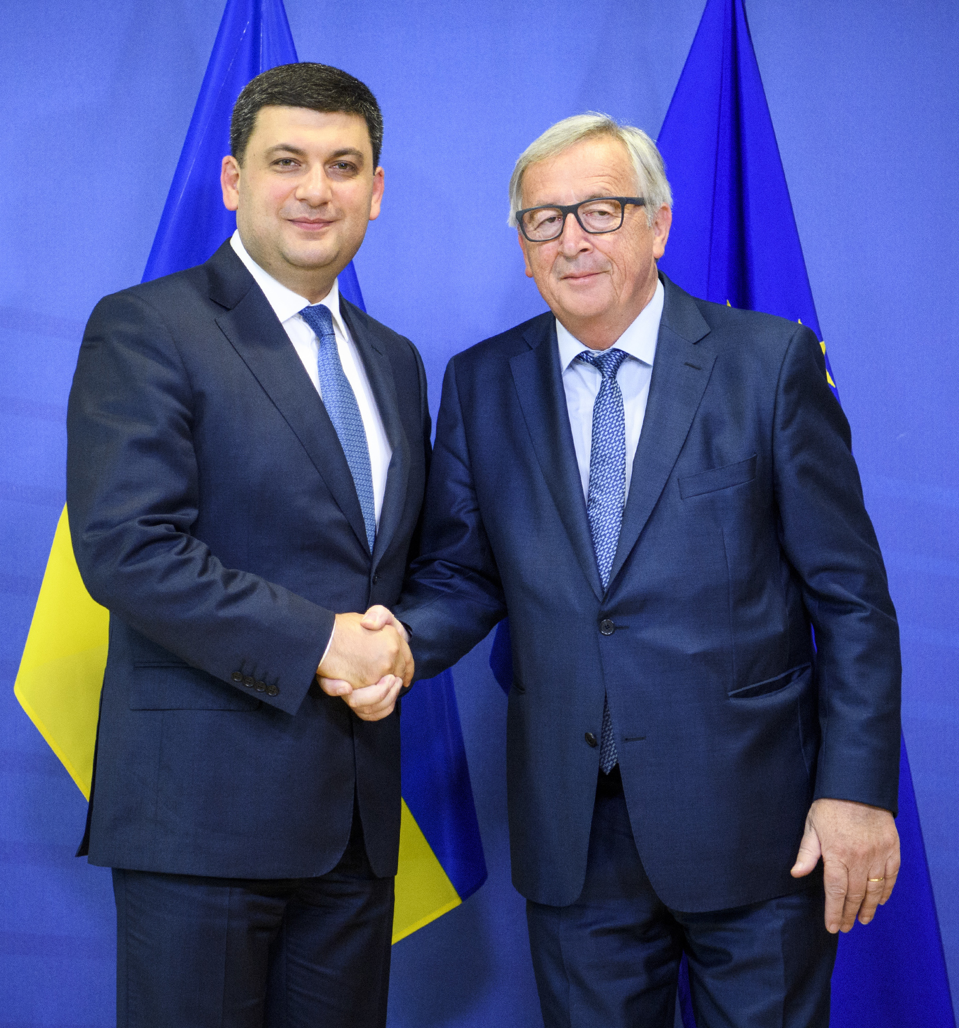 During a visit to Brussels, Prime Minister of Ukraine Volodymyr Groysman had talks with Jean-Claude Juncker, President of the European Commission